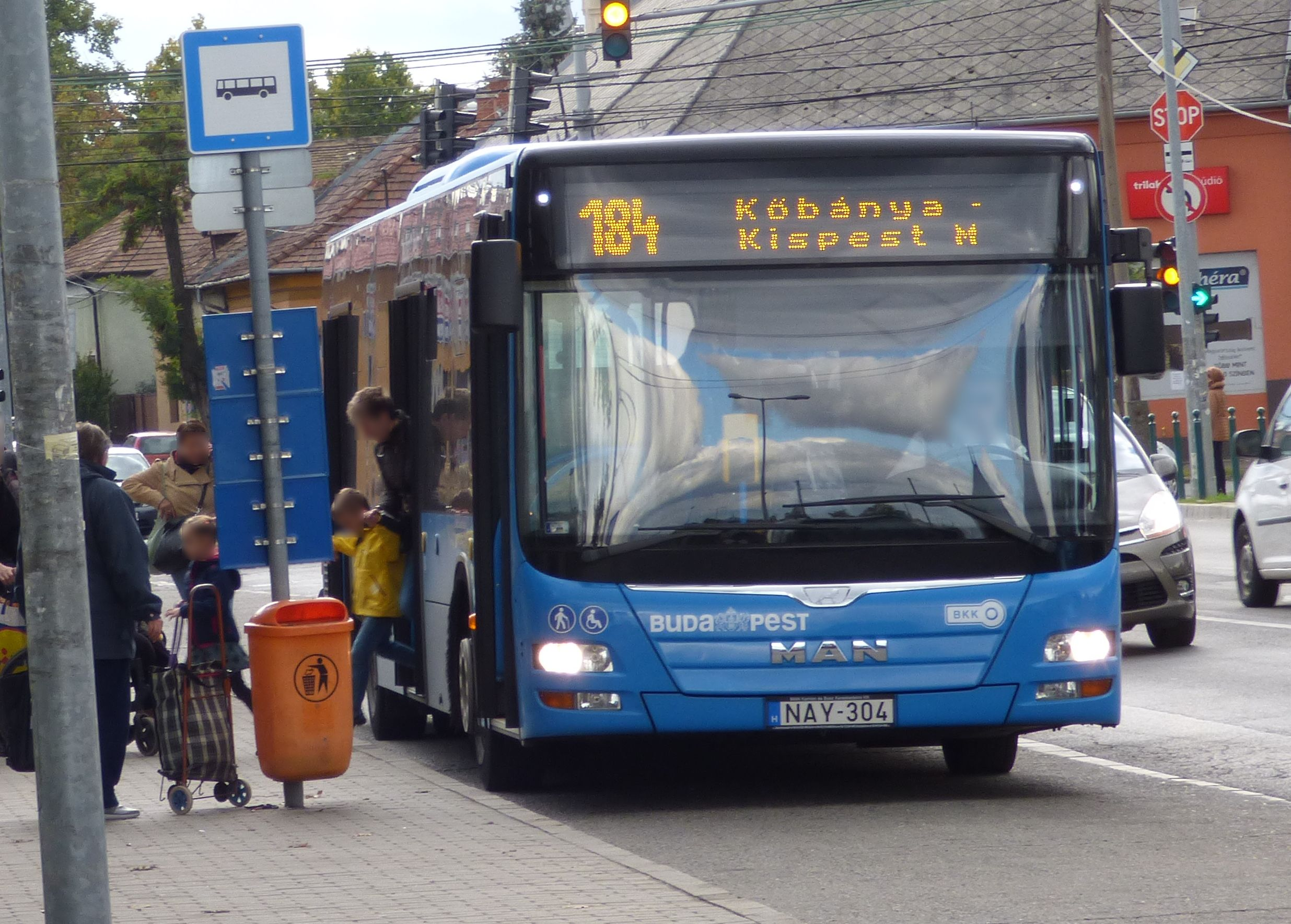 MAN A21 Lion's City bus (reg. NAY-304) on line number 184 (Budapest).